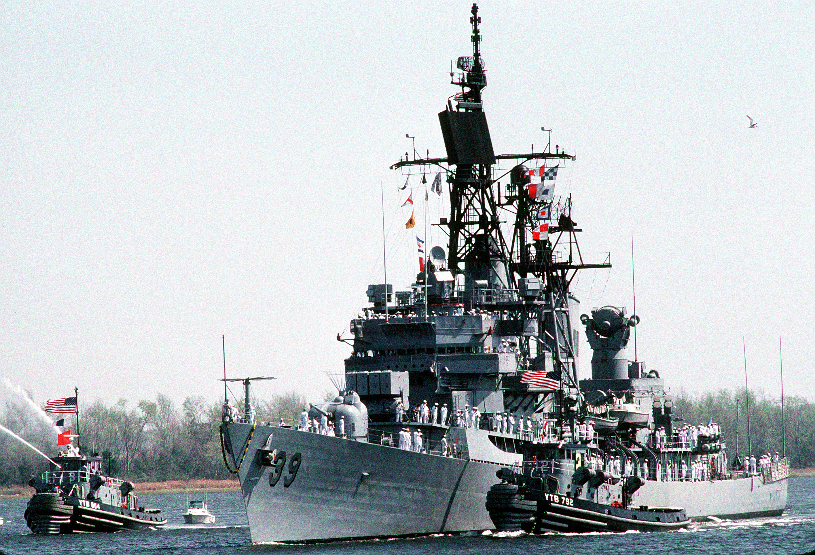 The tug USS Ahoskie (YTB-804), left, sprays streams of water into the air as USS Antigo (YTB-792) comes alongside the guided-missile destroyer USS Macdonough (DDG-39) to escort her up the Cooper River to Naval Station Charleston, South Carolina (USA), 22 March 1991. Macdonough was returning to Charleston following deployment to the Persian Gulf region for Operation Desert Shield and Operation Desert Storm.